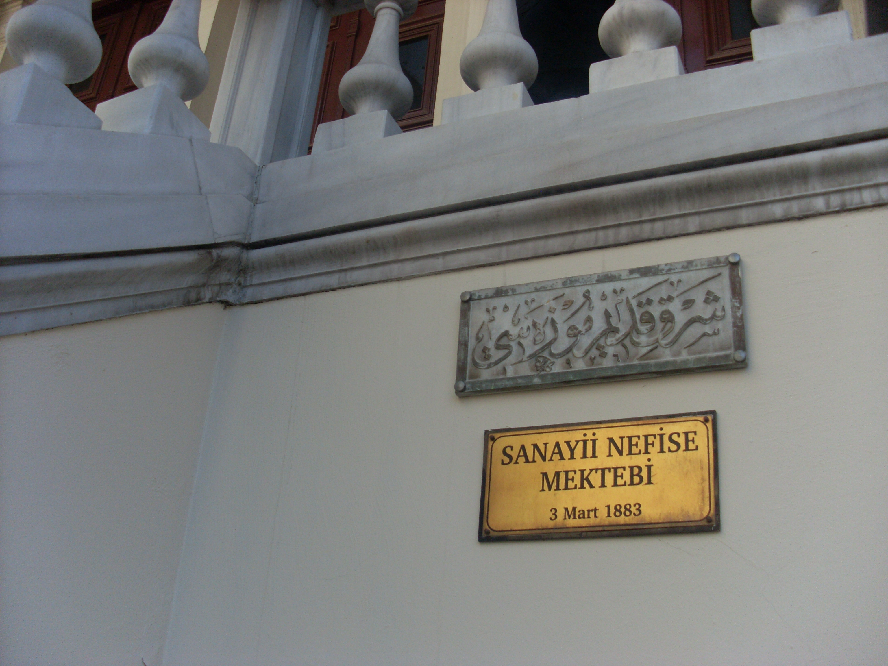 İstanbul - Sanayi-i Nefise Mektebi (Mimar Sinan University) r1 - Mar 2013